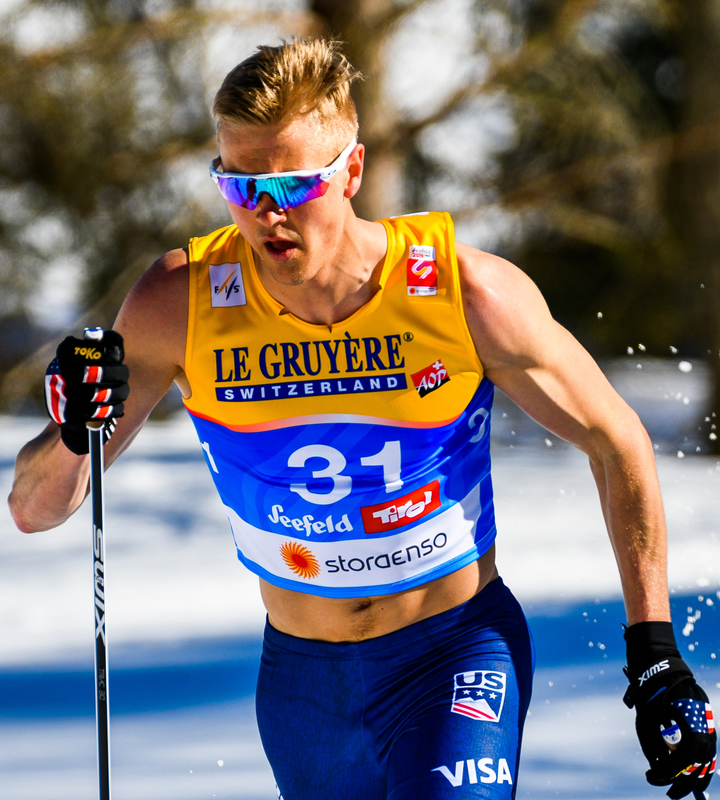 FIS Nordic Wolrd Ski Championships Seefeld 2019 - Men 15km Interval Start Classic. Picture shows Erik Bjornsen (USA).